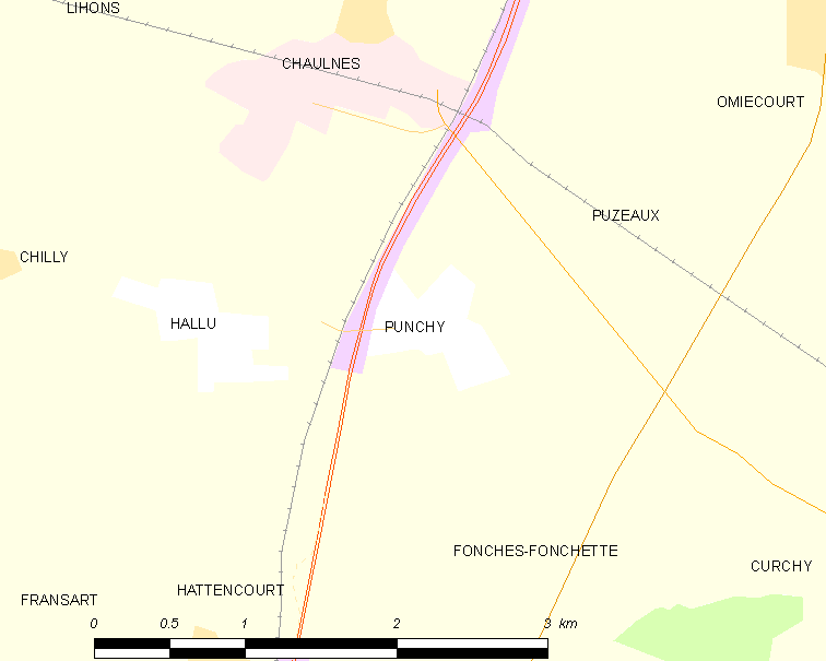 Map of French municipality Punchy